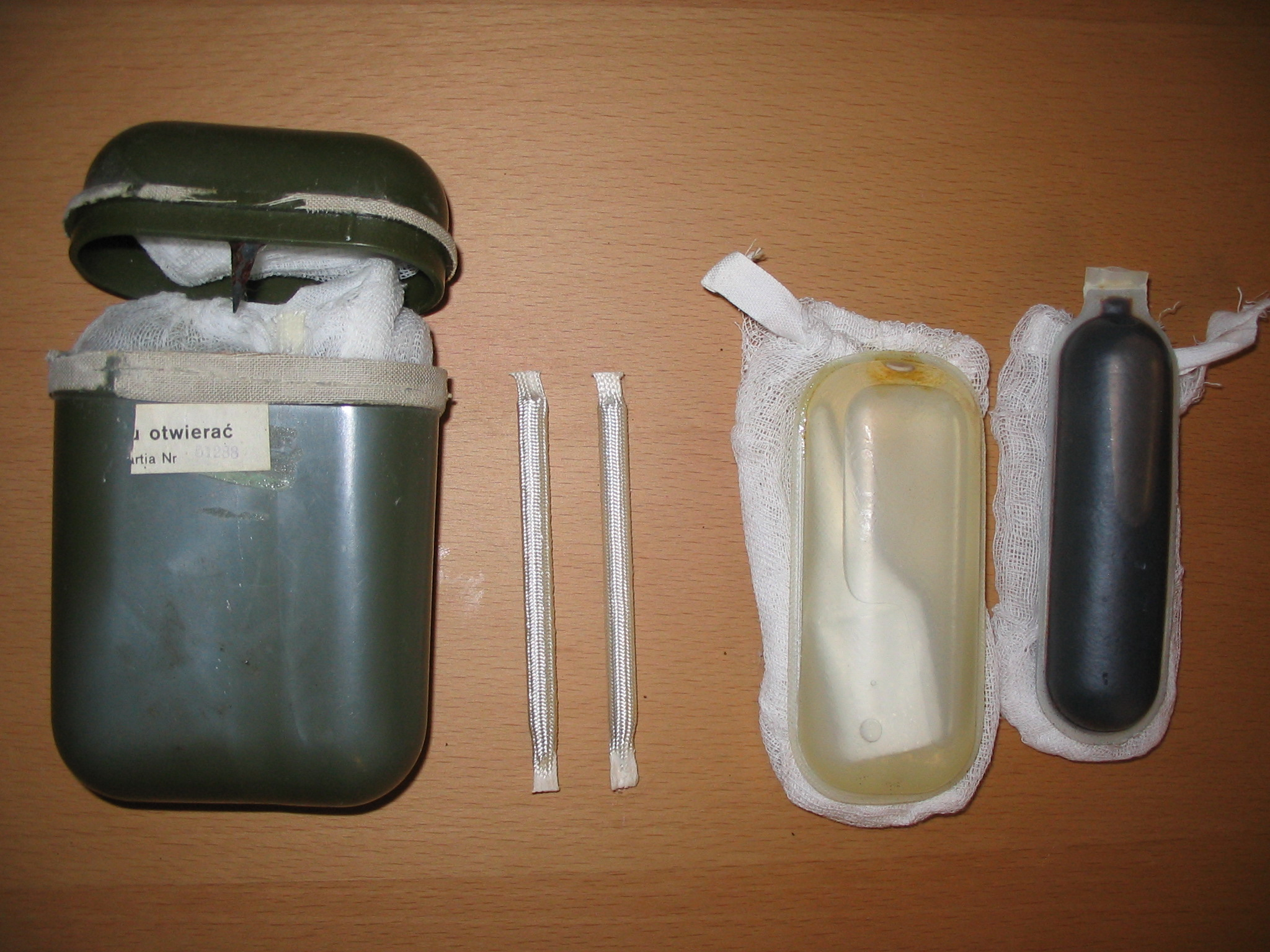 IPP wzor 51 inside